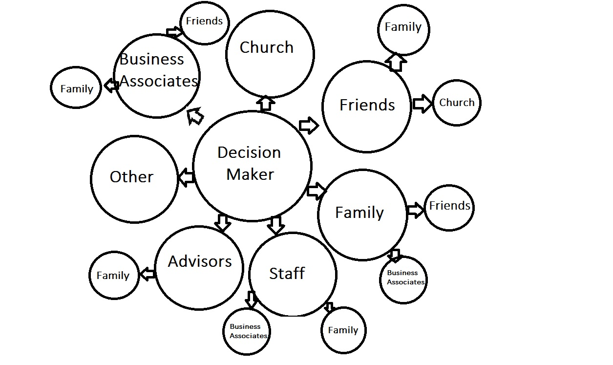 This image is a crude example of what a power map could look like.